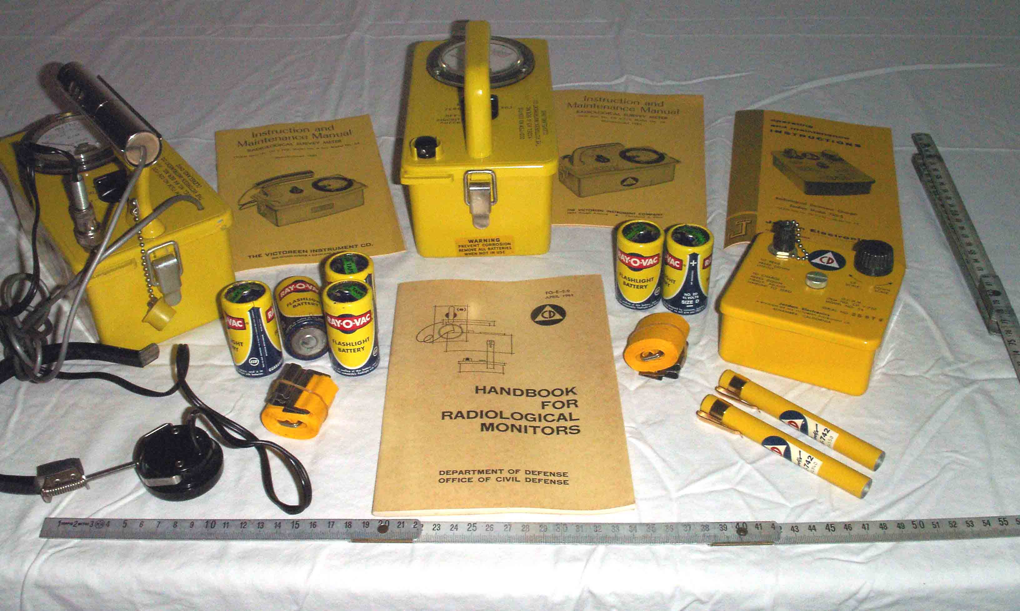 Victoreen Civil Defence V-777-1 shelter radiation detection kit overview. It includes, from left to right: V-700, a true Geiger-Mueller counter, with its headphone and detachable tube; V-715, a ionization chamber; two V-742 stylo-dosimeter (portable dosimeter); V-705, a dosimeter reader; operation manual for every component; two adustable straps for V-700 & V-715; several D-cells to power everything (two D-cell for each - V-742 dosimeter do not require battery). Scale is given by the metric scale put around the set. (from Cleveland, Ohio).